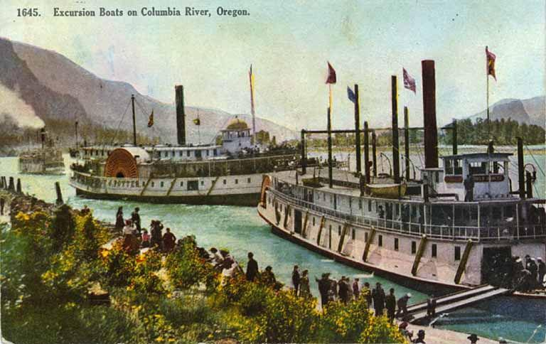 Postcard showing steamboats waiting for lock at Cascade Locks on the Columbia river, in 1910 or before. Steamer in center with dome on pilothouse is the T.J. Potter. Steamer in foreground may be the Charles R. Spencer. Steamer in background may be the Bailey Gatzert